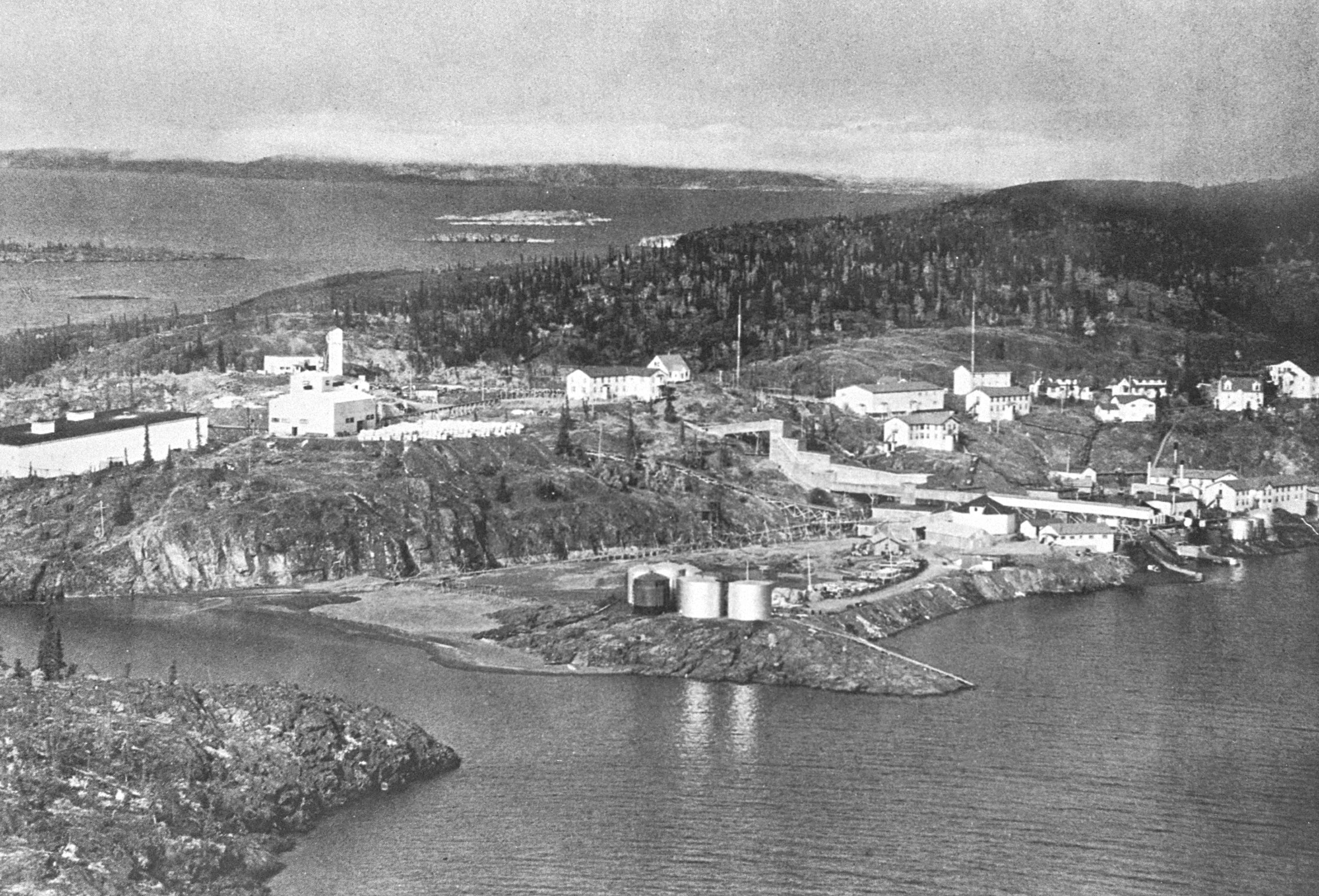 Port Radium from the air. Original caption: "Port Radium [Aerial photographs of Port Radium mine stie on Great Bear Lake. 1930s]Caption: 975.58 Kb 10.00 x 6.80 inches Credit: Edm. Air Museum Ctte./NWT Archives/ N-1979-003-0600" This image is available from the NWT archives under the reference number N-1979-003-0600This tag does not indicate the copyright status of the attached work. A normal copyright tag is still required. See Commons:Licensing. English | français | +/−